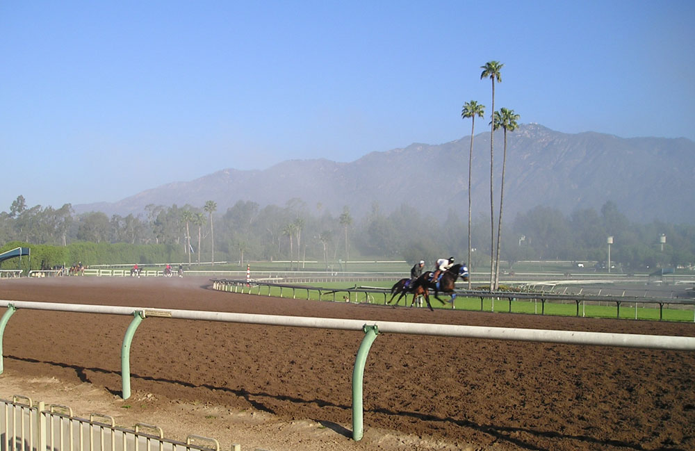 Santa Anita Park racetrack with San Gabriel Mountains in the background. (As the morning fog clears away.) Taken by Ellen Levy Finch (User:Elf) Feb 11, 2006.